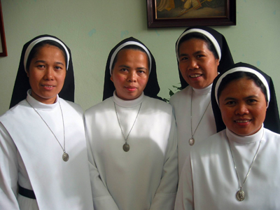 Augustinian Recollect Sisters